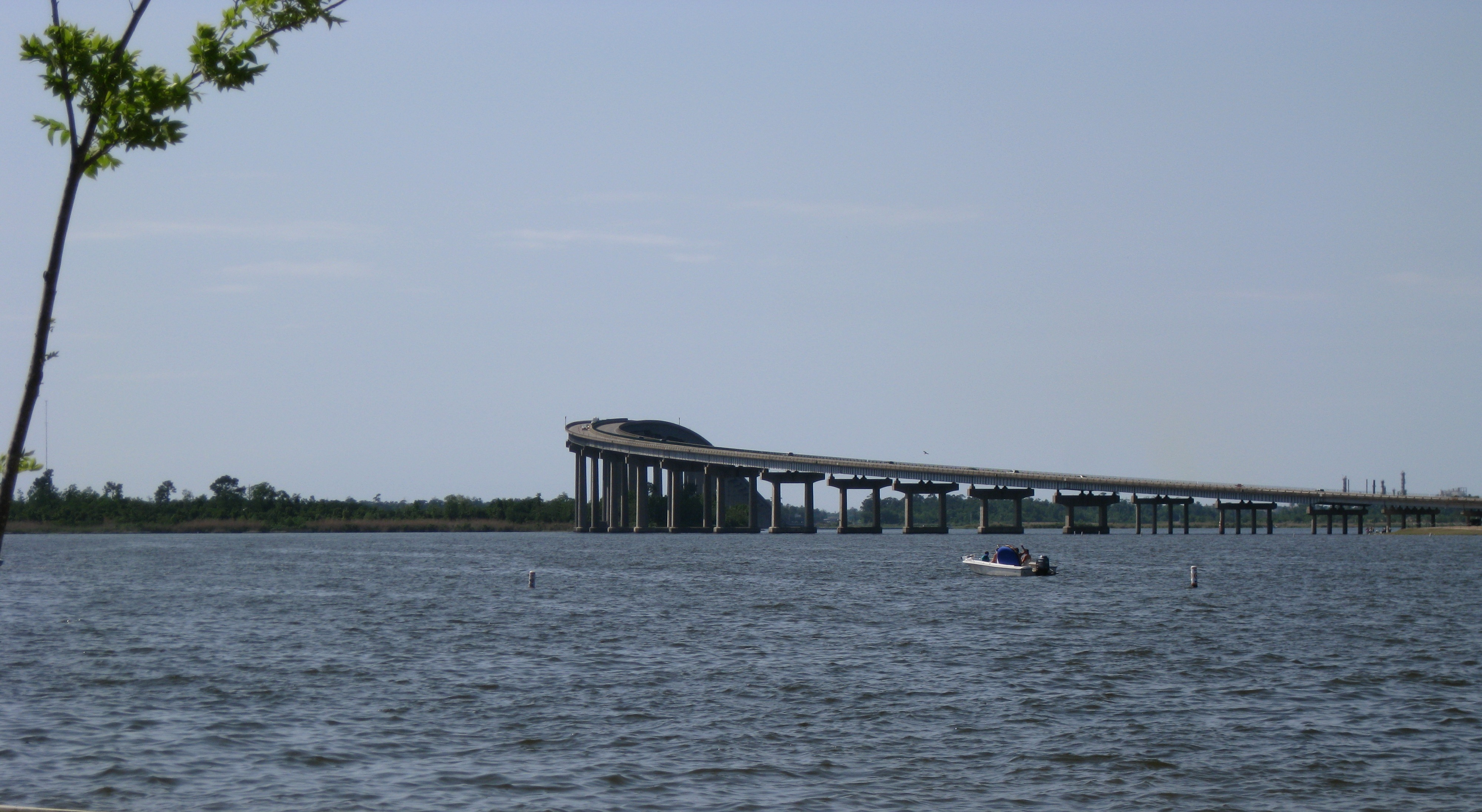 Prien Lake, with the Interstate 210 Bridge in the background.